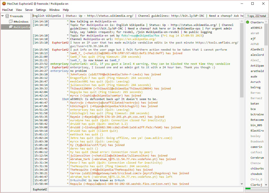 Hexchat 2.10.2 running under Windows 10, showing the English Wikipedia's IRC room.